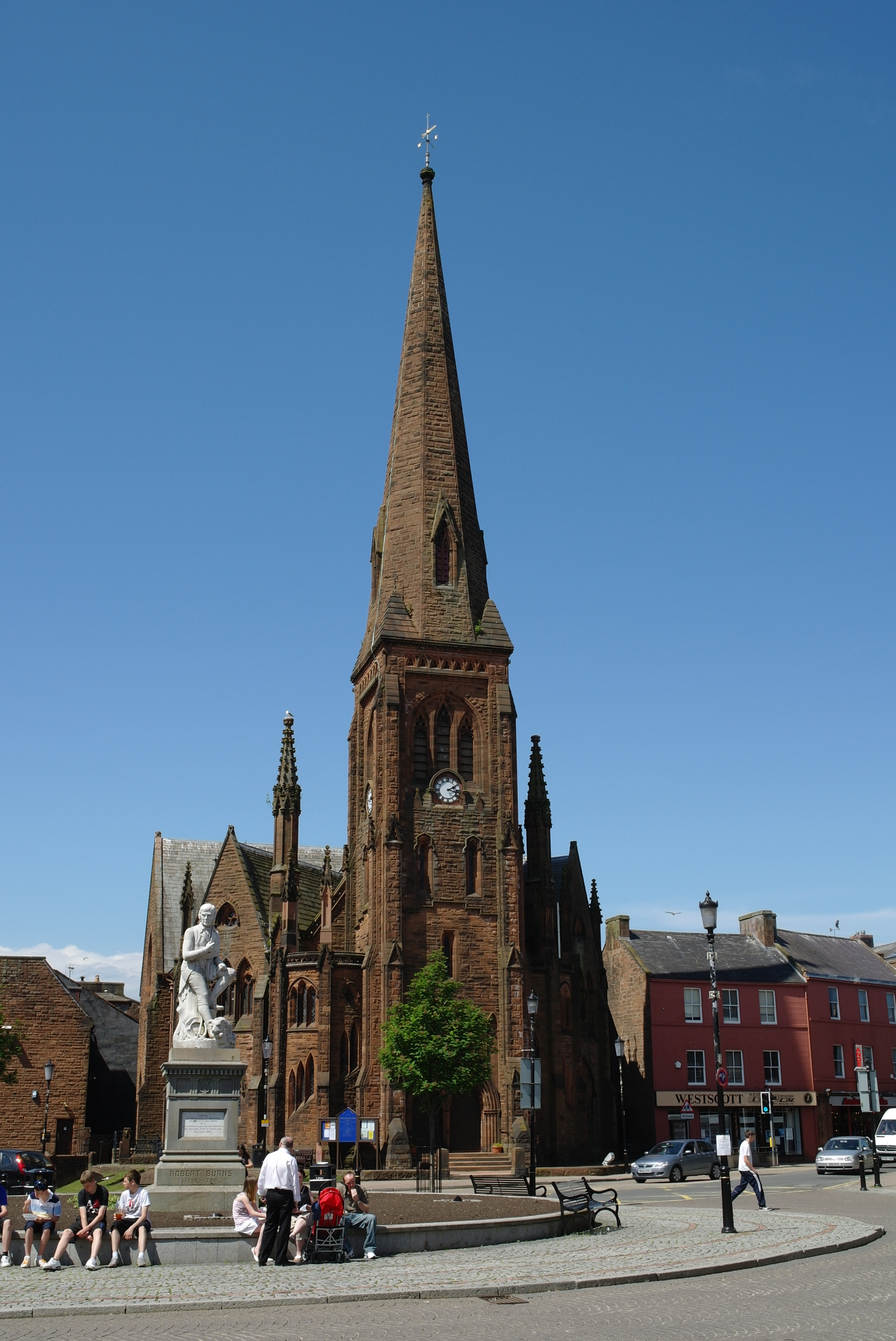 Robert Burns Statue and Greyfriars church, Dumfries, Scotland